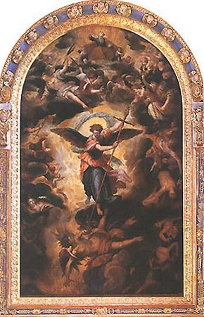 Fall of Lucifer